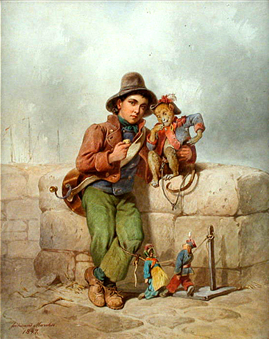 Ferdinand Marohn: Boy from a travelling circus with a monkey, a hurdy-gurdy and dancing puppets; 1847. Watercolours on paper. 29.2 x 24 cm.